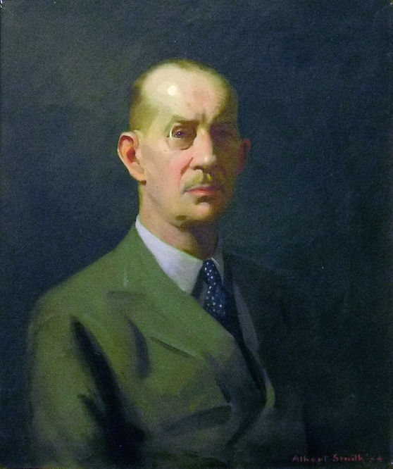 George Russell Clerk (1874–1951), Diplomat oil on canvas 71.5 x 58.5 cm 1934